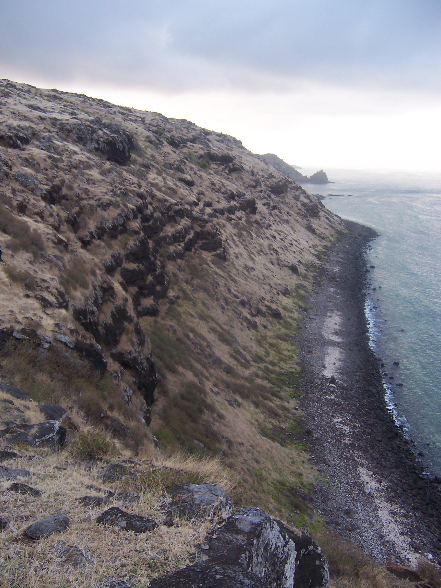 Basaltic layers' shore of Rodrigues island, near Pointe au Sel / Pointe Coton